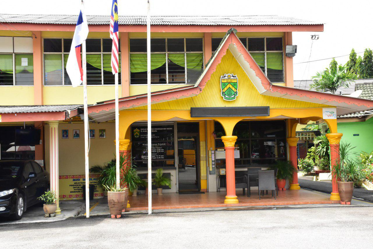 Pejabat SMKST